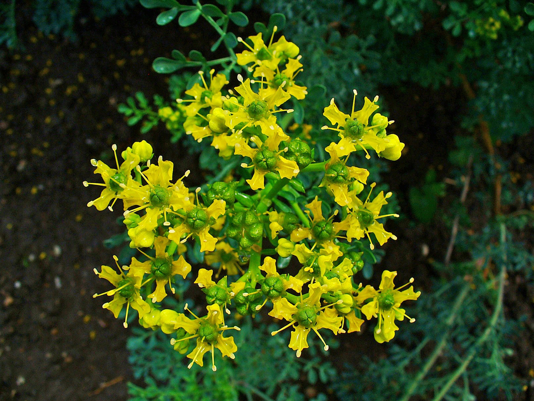 Ruta graveolens, Rutaceae, Common Rue, Herb-of-grace, inflorescence. Botanical Garden KIT, Karlsruhe, Germany.